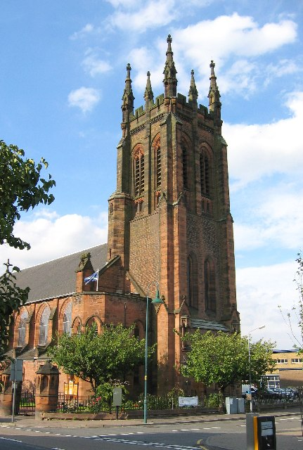 St Mary's Parish Church, Kirkintilloch, East Dunbartonshire. Built in 1914 to replace the old church, which is now the town's museum.